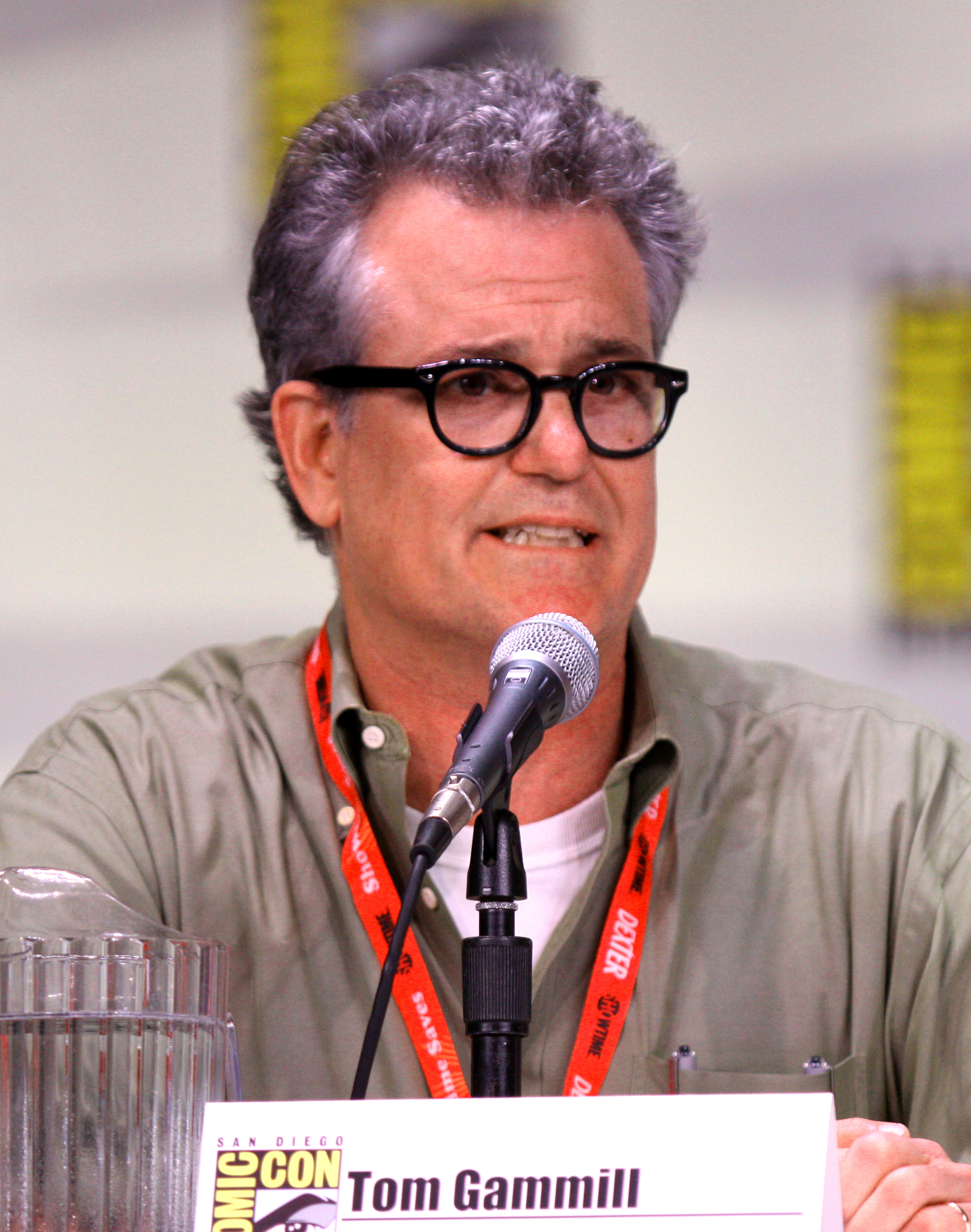 Tom Gammill at the 2011 Comic Con in San Diego